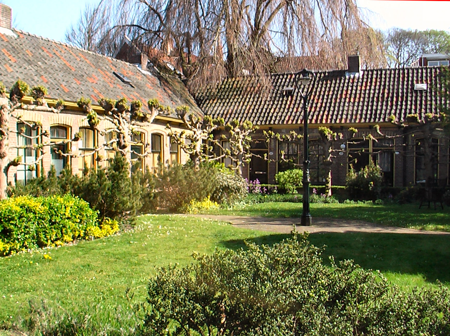 The garden of the Middengasthuis in Groningen, the Netherlands.